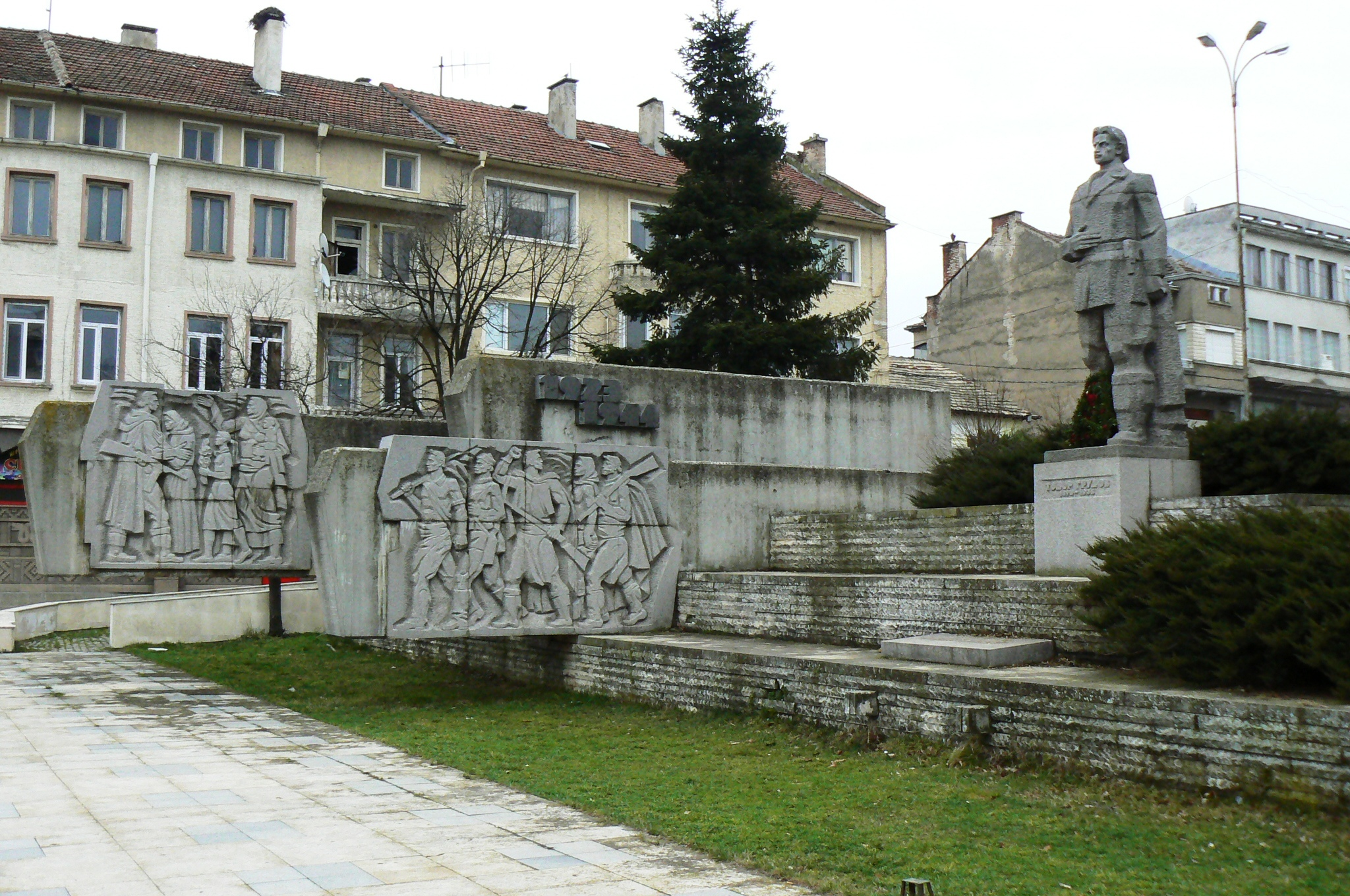 The monument of Grudov, Todor Dimitrov in the town of Sredets (once Grudovo), Burgas district, Bulgaria.